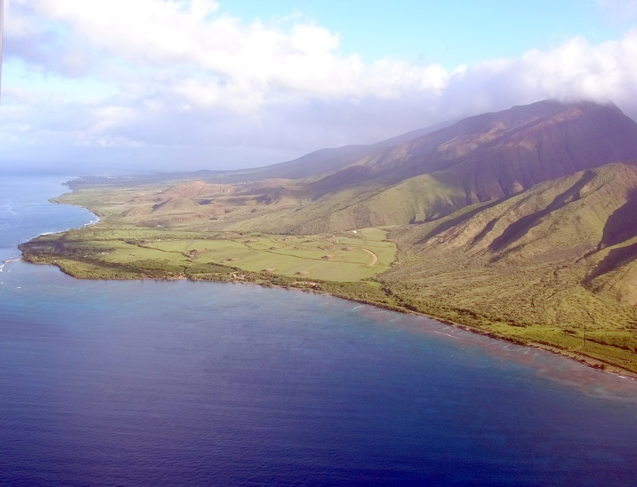 Alyxia oliviformis (habitat). Location: Maui, Olowalu